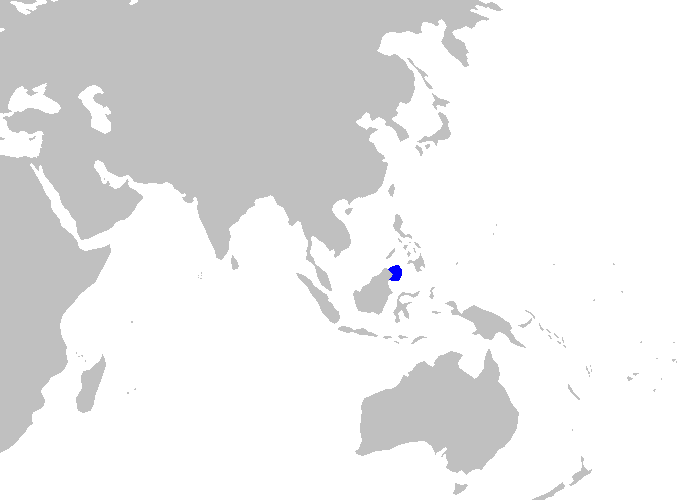 Distribution map for Glyphis sp B